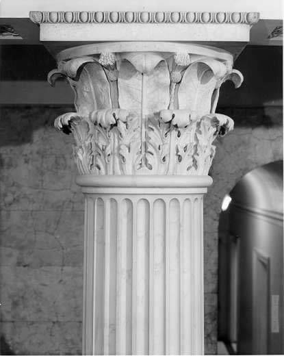 Photograph of capital of column in the Hall of Columns in the United States Capitol found at Architect of the Capitol website on Hall of Columns.